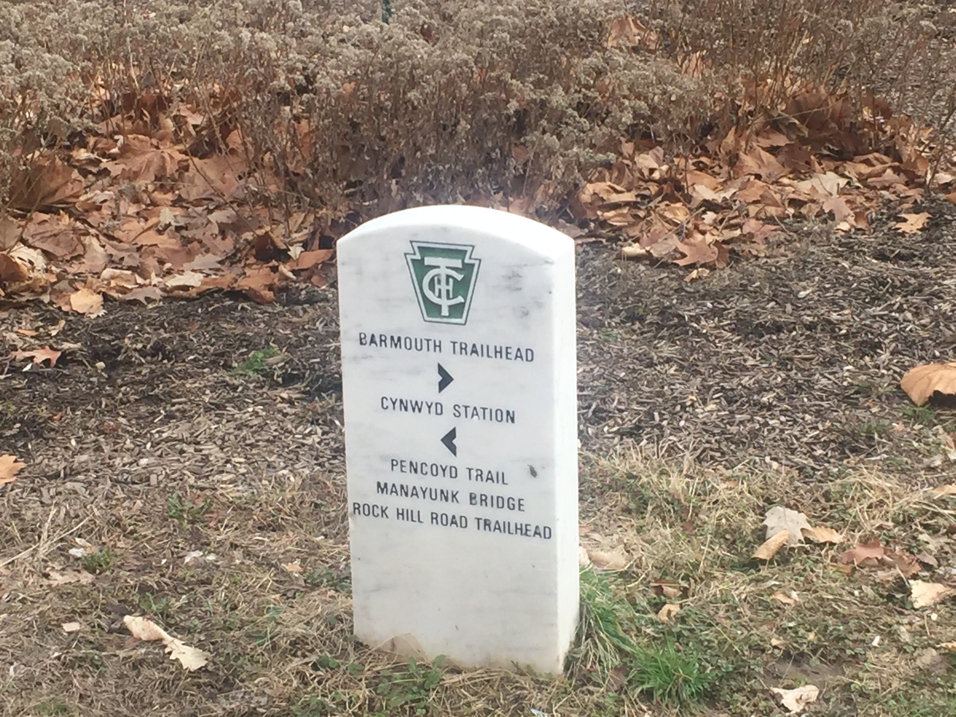 Barmouth trailhead